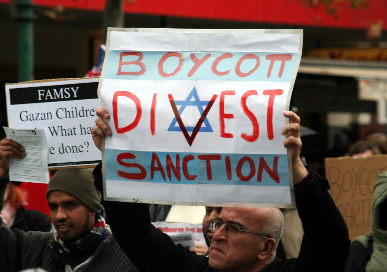 Protest against Israel's Gaza Blockade and attack on humanitarian flotilla - Melbourne 5 June 2010. As the MV Rachel Corrie was being intercepted by Israeli commandos for running the Israeli blockade of Gaza, thousands of people were gathering in Sydney and Melbourne to protest Israel's attack on the flotilla of 6 ships carring humanitarian aid to Gaza that resulted in the death of 9 innocent volunteers. The protest heard from a spokeperson from the Turkish community, muslim leaders, Greens MLC Colleen Hartland, President of the Victorian Trades Hall Council Kevin Bracken, and representatives from FAMSY and Australia Asia worker Links.